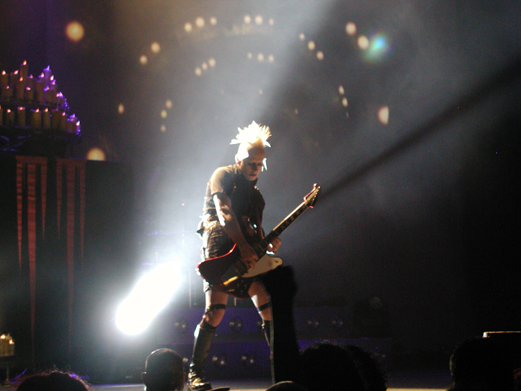 Ver Sacrum concert review at